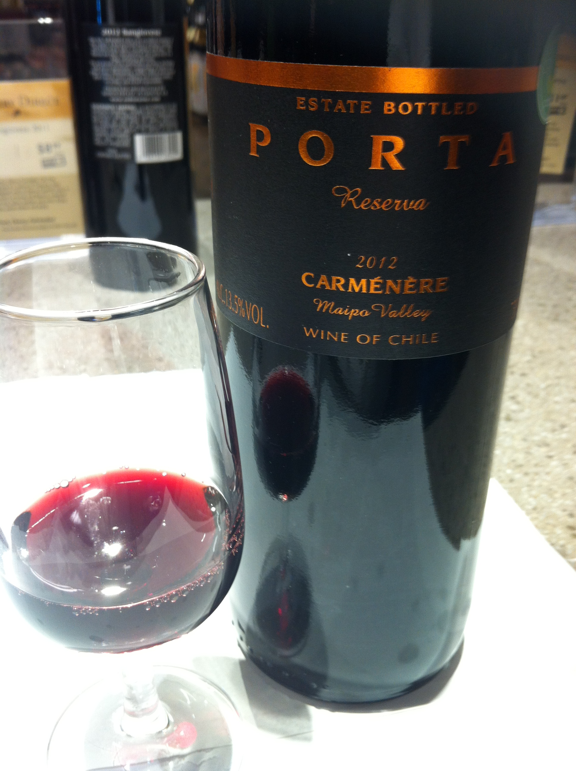 Red wine from Chile's Maipo Valley made from Carmenere